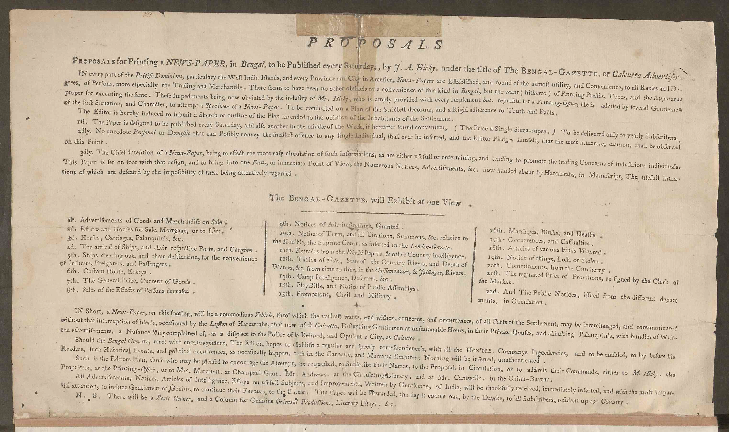 1780-00-Prospectus of Hicky's Bengal Gazette